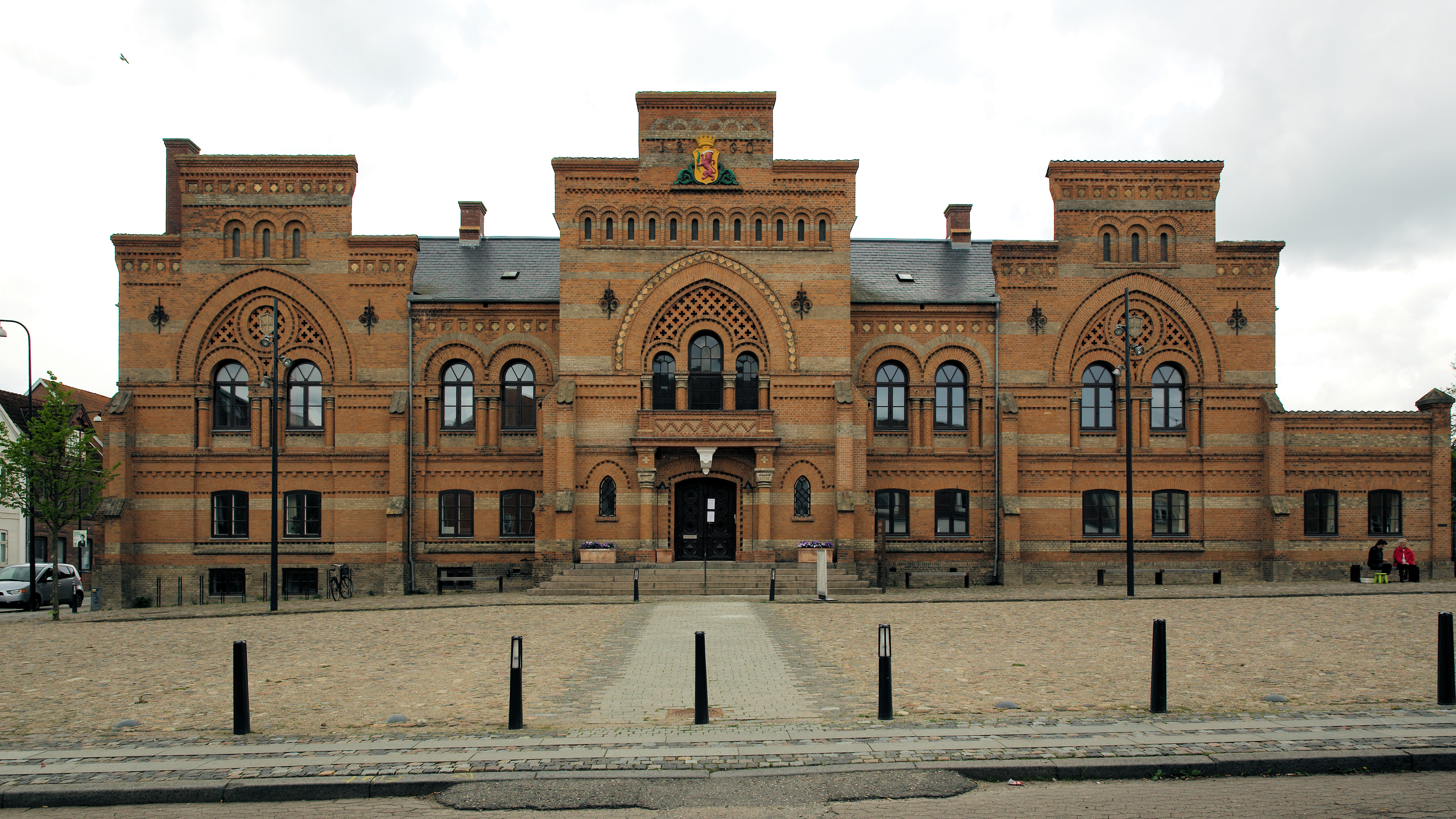 Fredericia Old Town Hall designed by Ferdinand Meldahl